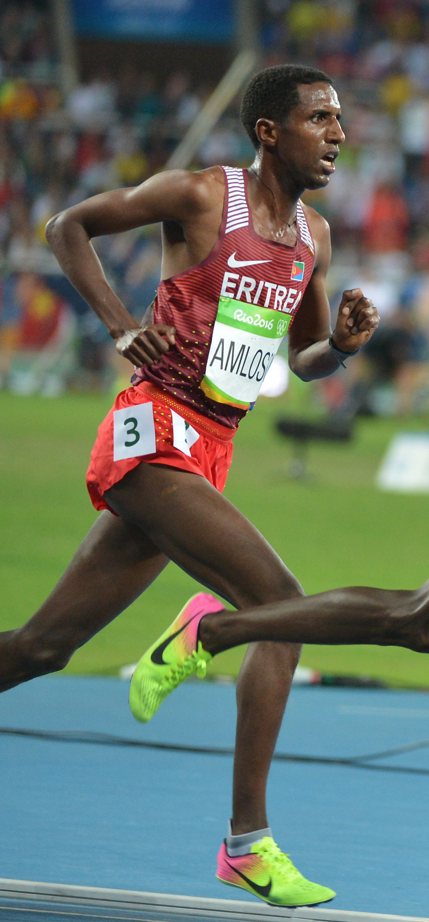 Spcs. Leonard Korir and Shadrack Kipchichir finish 14th and 19th respectively in the men's 3,000-meter run Aug. 13 at the 2016 Rio Olympic Games in Rio de Janeiro. Both Soldiers in the U.S. Army World Class Athlete Program turned in their season-best performaces, with Korir finishing in 27 minutes, 58.65 seconds and Kipchirchir clocked at 27:58.32. Mohamed Farah of Great Britain successfully defended his Olympic crown by winning the race in 27:05.17. Paul Kipnetech Tanui of Kenya took the silver in 27:05.64, and Tamirat Tola of Ethiopia claimed the bronze in 27:06.27.